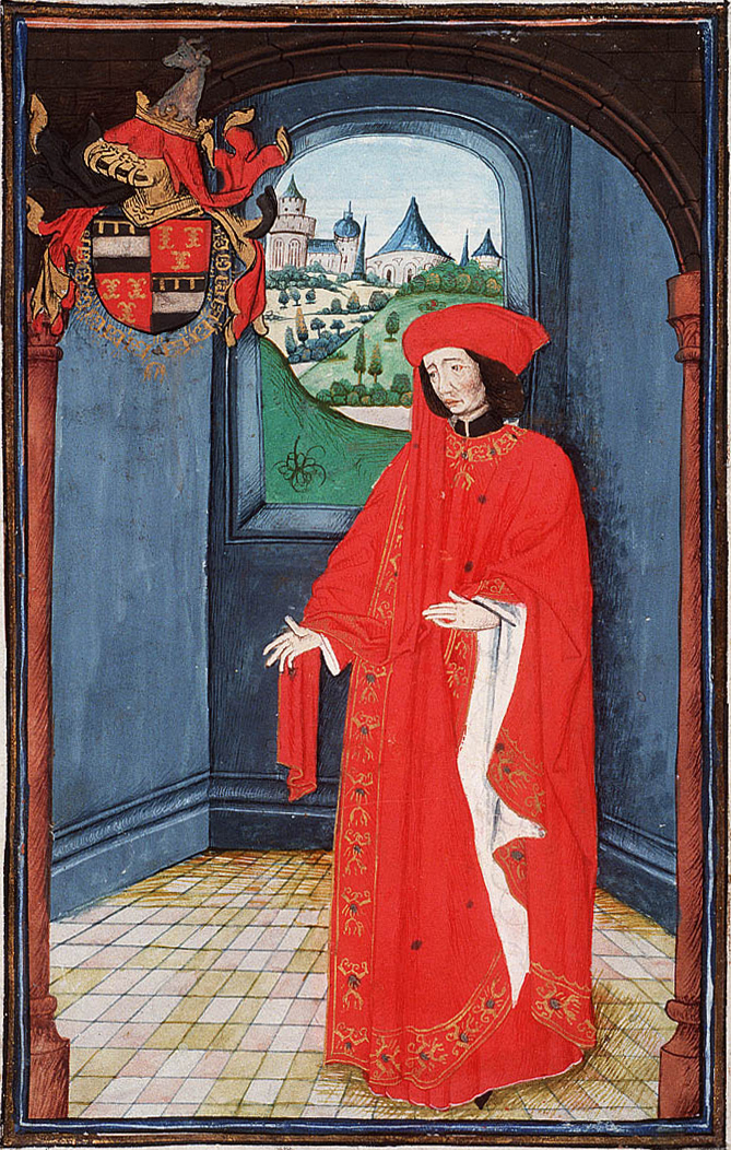 Statuts, Ordonnances et Armorial de l'Ordre de la Toison d'Or (Statutes, Ordonnances and armorial of the Order of the Golden Fleece) Place of origin, date: Southern Netherlands; 1473. Added sections: Southern Netherlands; 1478 or shortly after and 1491 or shortly after Material: Vellum, ff. 86, 249x187 (167x106) mm, 23 lines, littera cursiva (lettre bourguignonne). French. Binding: 18th-century brown leather Decoration: 1 full-page miniature (170x115 mm) with border decoration; 92 miniatures (185/155x120/100 mm); 1 historiated initial (80x90 mm) with border decoration; decorated initials with border decoration (ff., Added section: miniatures ; 4 drawings for miniatures (not finished) Provenance: Presented in 1473 by Gilles Gobet, King of Arms of the Order of the Golden Fleece, to Charles the Bold, Duke of Burgundy and the other Knights during the Chapter of the Order held at Valenciennes; Treasure of the Golden Fleece, Brussls; taken away by the Treasurer C.-F. Humyn (d. 1735) or his daughter C.Ch. de Corte; by legacy to her daughter M.-L. de Corte, wife of Ph.-E. de Poederlé; purchased in 1781 at the Poederlé sale by G.-J- Gérard of Brussels; acquired in 1832 as part of the Gérard collection (no. A 27)